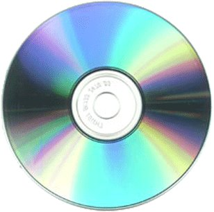 Image of a Blank CD-R